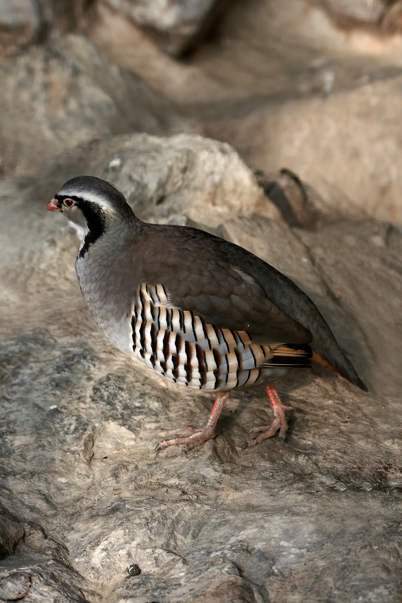 Description: Alectoris is a genus of partridges with representatives in southern Europe, north Africa and Arabia, and across Asia to Tibet and western China.